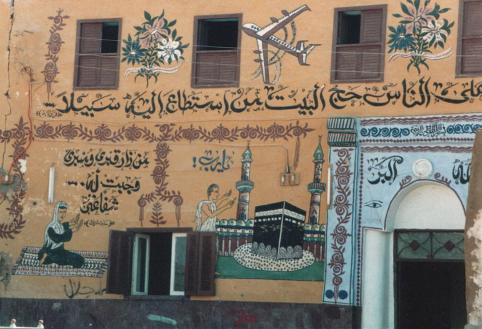 House of a "Haddschi" (a Muslim who has already visited Mekka) Near Luxor, Upper Egypt